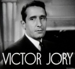 Cropped screenshot of Victor Jory from the trailer for the film First Lady